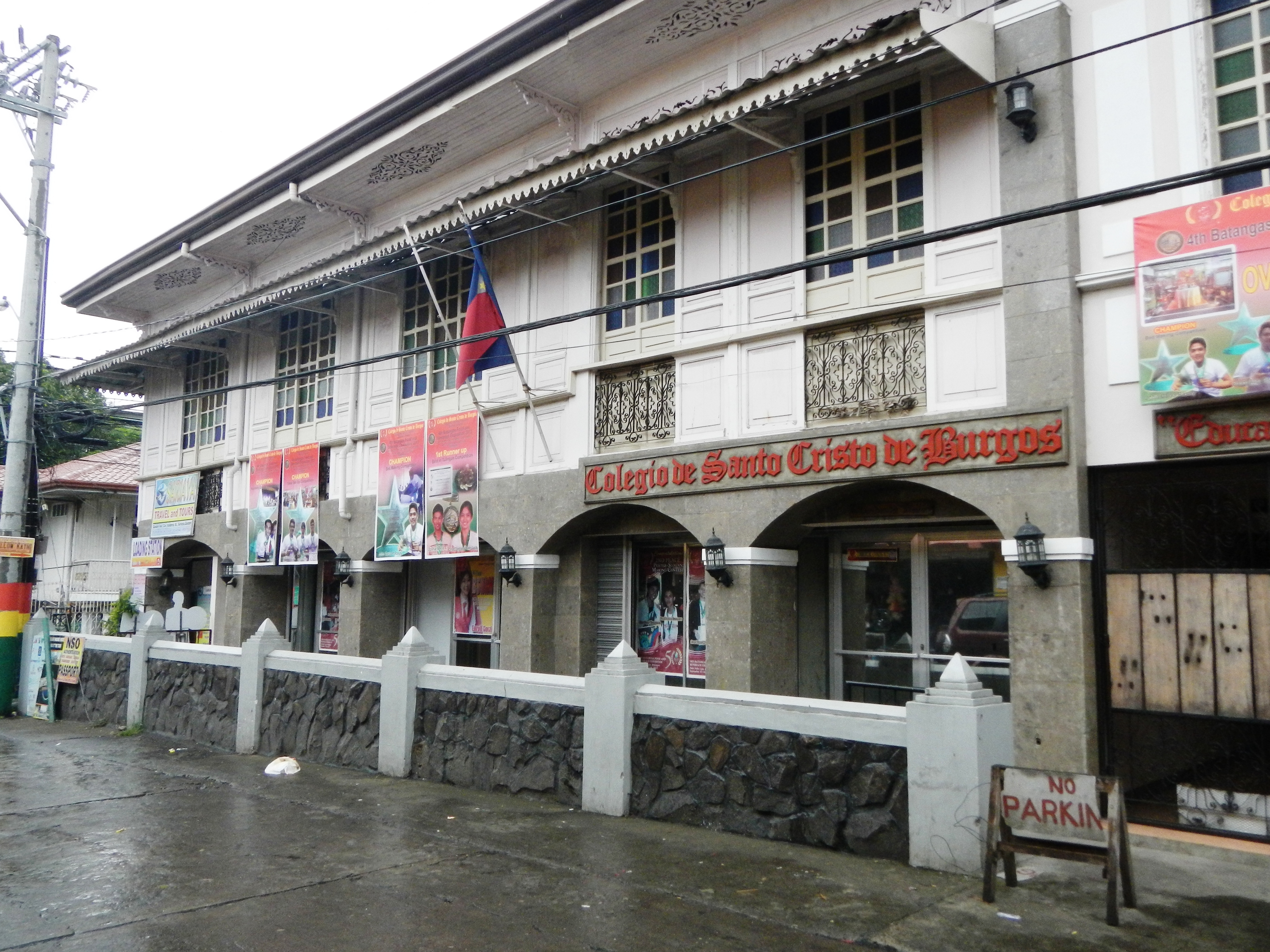 Upload Wizard -- (general description of landmarks, town, church) - of - the Heritage Houses, Mansions, Town Proper, Centro, Highway, and the - 1599 Saint Francis of Assisi Parish Church of Sariaya, Quezon [1] - Feast - October 4, Concepcion, Sariaya 4322 Quezon - belongs to the Roman Catholic Diocese of Lucena [2] [3] - Sariaya’s Santissimo Cristo de Burgos, the Museo ng Debosyon at Buhay[4] - Sariaya church was built in 1599, in 1965, replaced in 1641and finally re-built in 1748; located in Sariaya town proper;[5] [6][7] Church Architecture [8] [9] [10] - Episcopal District of Saint Mark, Vicariate of Saint Philip - Sariaya, Quezon [11] ([12] Region: CALABARZON Region IV-A 2nd district of Quezon Founded: October 4, 1599 Castanas - Barangays: 43 area 239.8 km2 or 92.6 sq mi - a first class municipality in the province of Quezon, Philippines famous for beaches, resorts, heritage houses, and hiking activities Coordinates: 13°56'31"N 121°30'9"E).[13]).